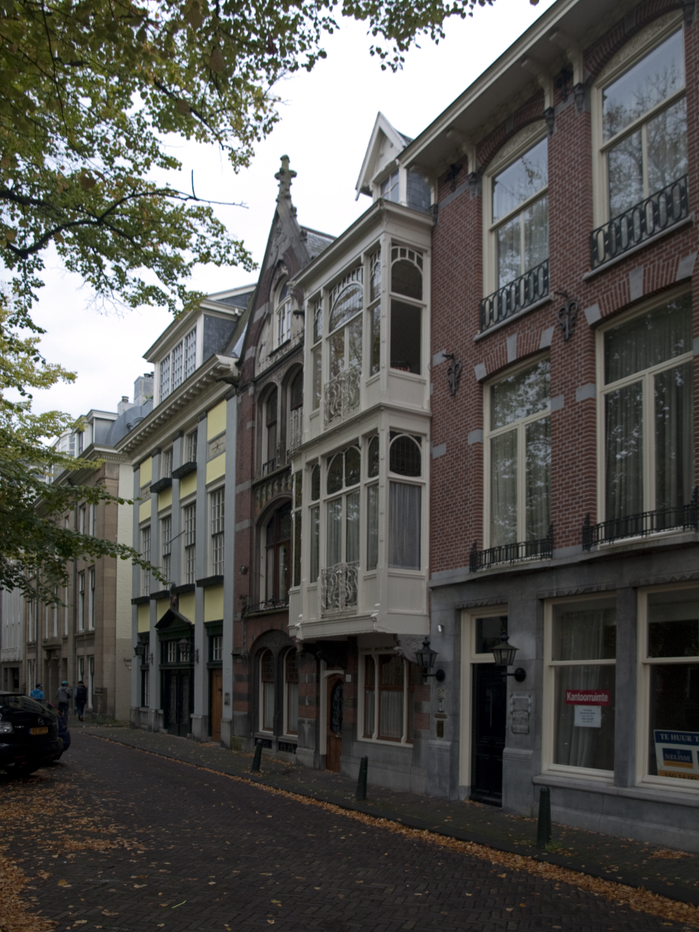 The Hague, Smidswater 26 (second right, Art Nouveau)